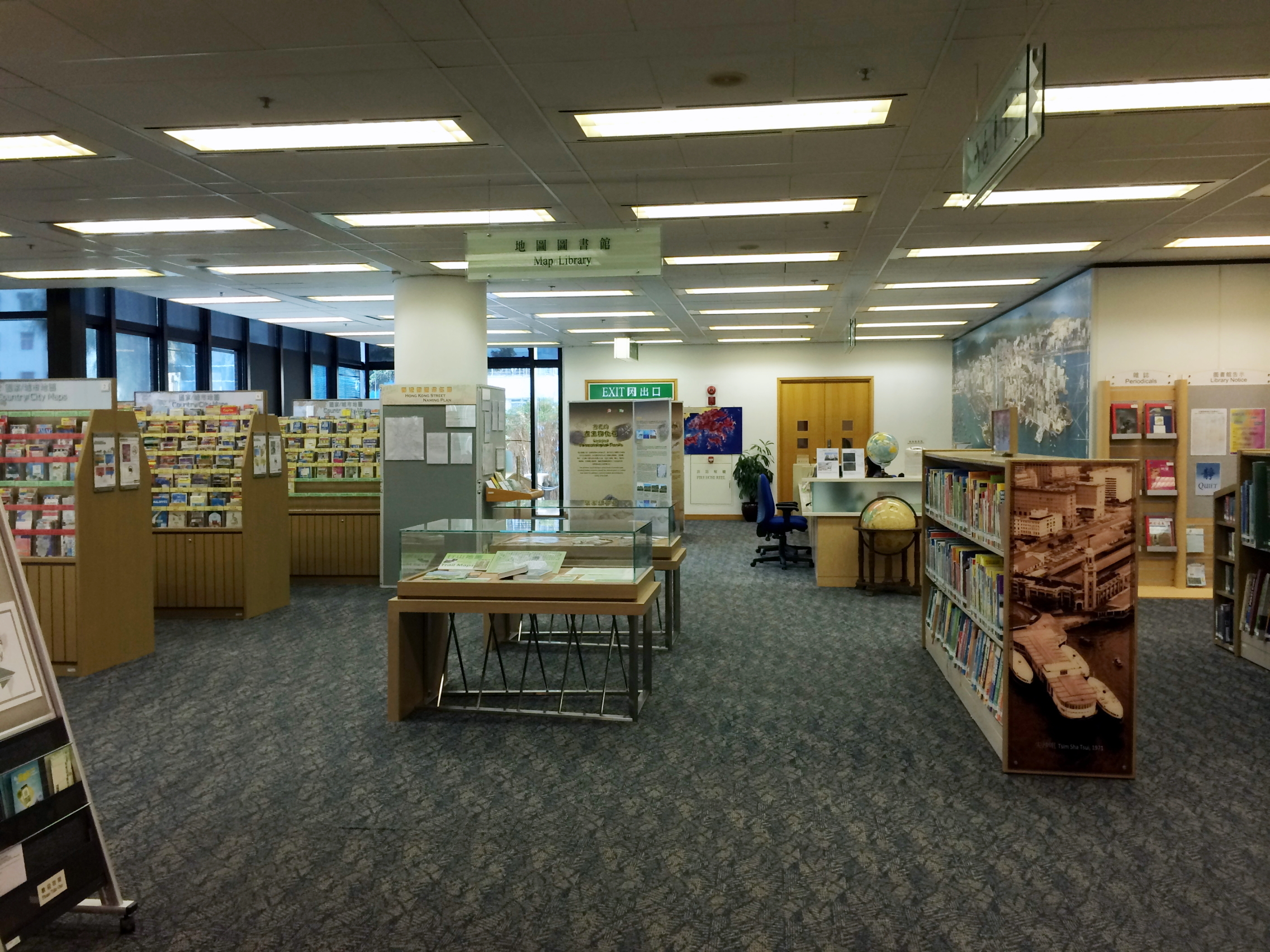 Hong Kong Central Library Level 5 Map Library